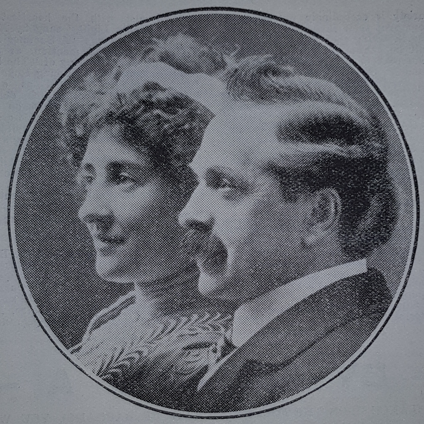 A picture of William Dove Paterson and Miss Marie Pascoe shortly before their wedding. From Bon Accord magazine 02 February 1911